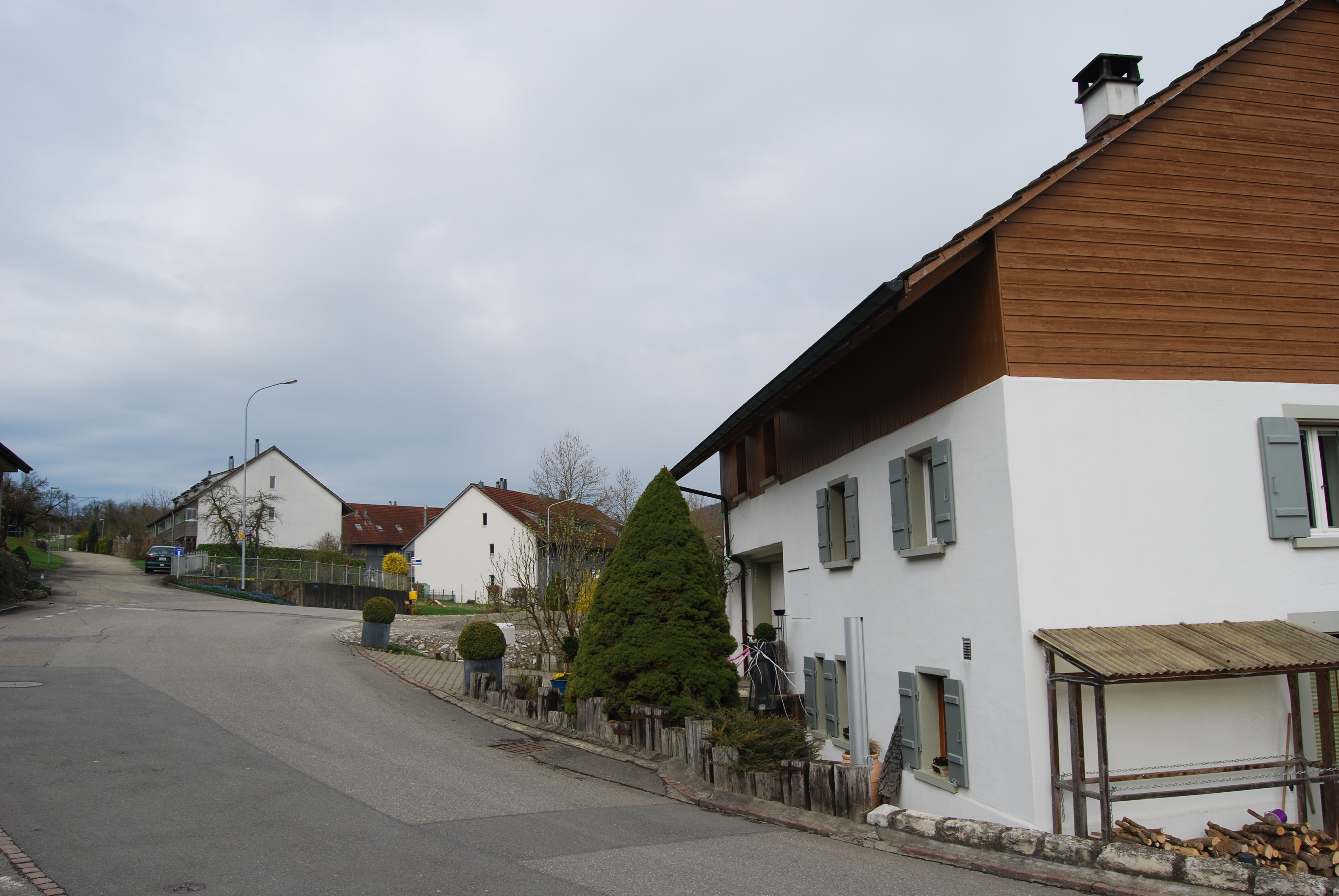 Rümikon, canton of Aargau, SwitzerlandEsperanto: Rümikon, Kantono Argovio, Svislando